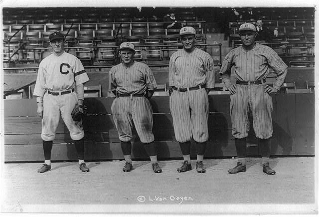 Title: Wambsganss, and his tripple [sic] play victims, Kilduff, Mitchell & Miller of the Brooklyn B.B. Club Abstract/medium: 1 photographic print.